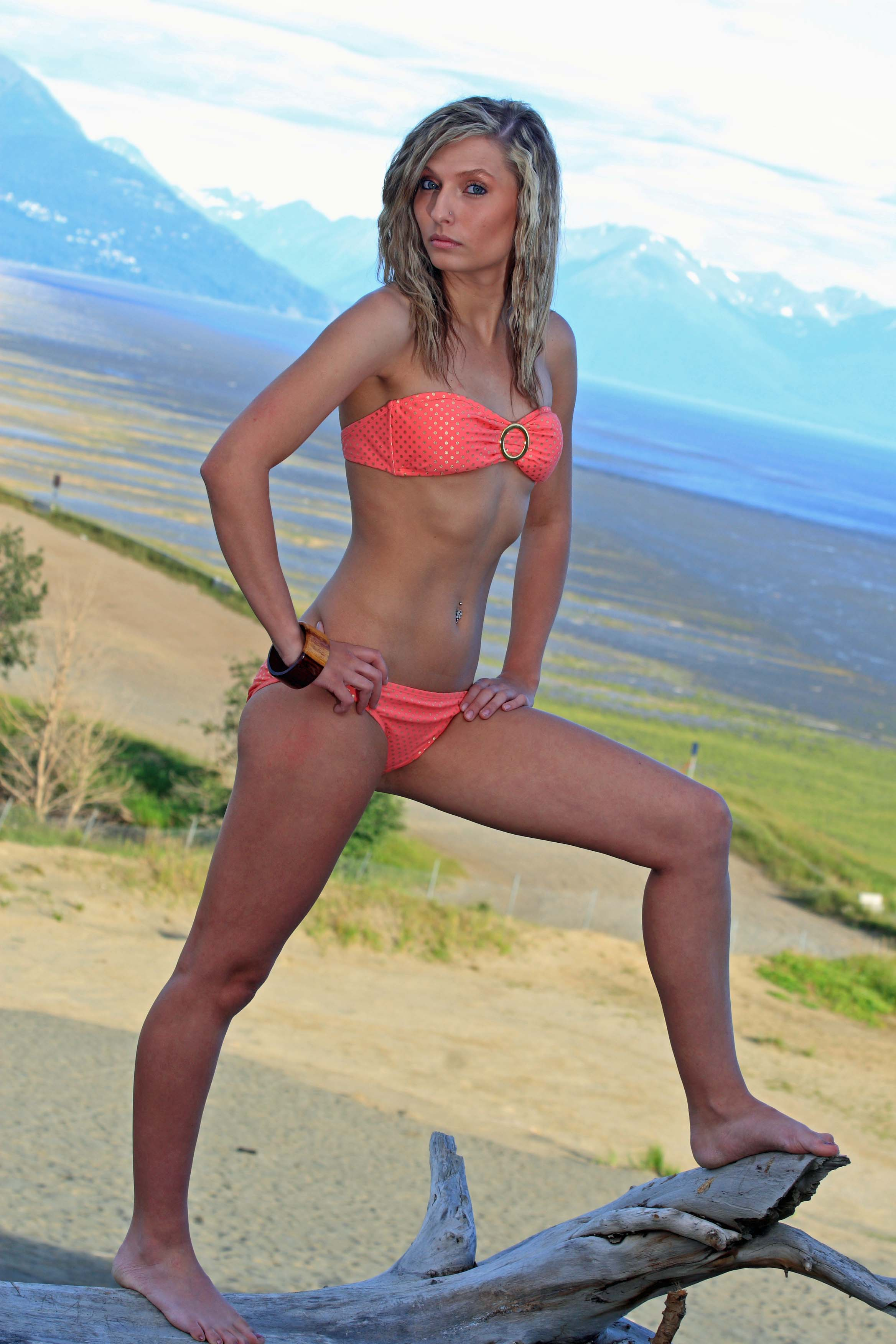 We had a group shoot at the Kincaid sand dunes in West Anchorage in July 2011. This may have been our best shoot of the season; absolutely great day, warm, sunny, no wind, excellent lighting, and incredible models - most of them were brand new to us. One of our shooters invited Morgan - I had no idea who she was but knew within about 0.03 seconds we would have a great shoot - even though I don't she ever did a photo shoot before. As you can tell, Morgan is incredibly photogenic - she oozes enthusiasm, wit, creativity, style, poise, and confidence - and she is absolute joy to shoot with. Hopefully this is the first of many shoots! Strobist info: I used two flash units, a Canon 580 EX II at 1/2 power and a Vivitar 285 HV at 1/4 power positioned at 45 degree angles from Morgan at a distance of 10-12 feet. I noticed some shadow on Morgan's face so I'll have to take her back out on the dunes - what a bummer!